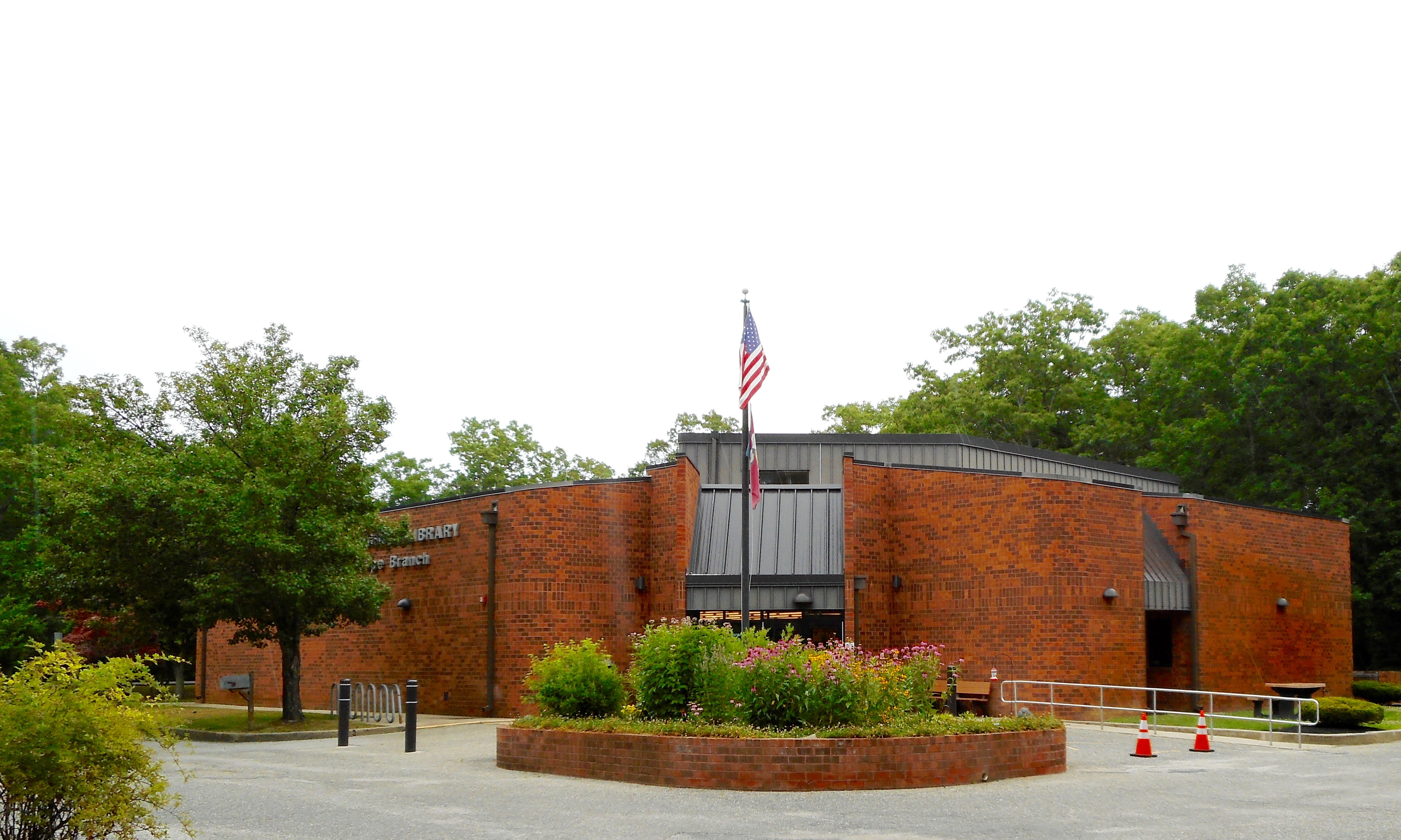 Cape May County Library Upper Cape Branch in Upper Township, New Jersey near Petersburg